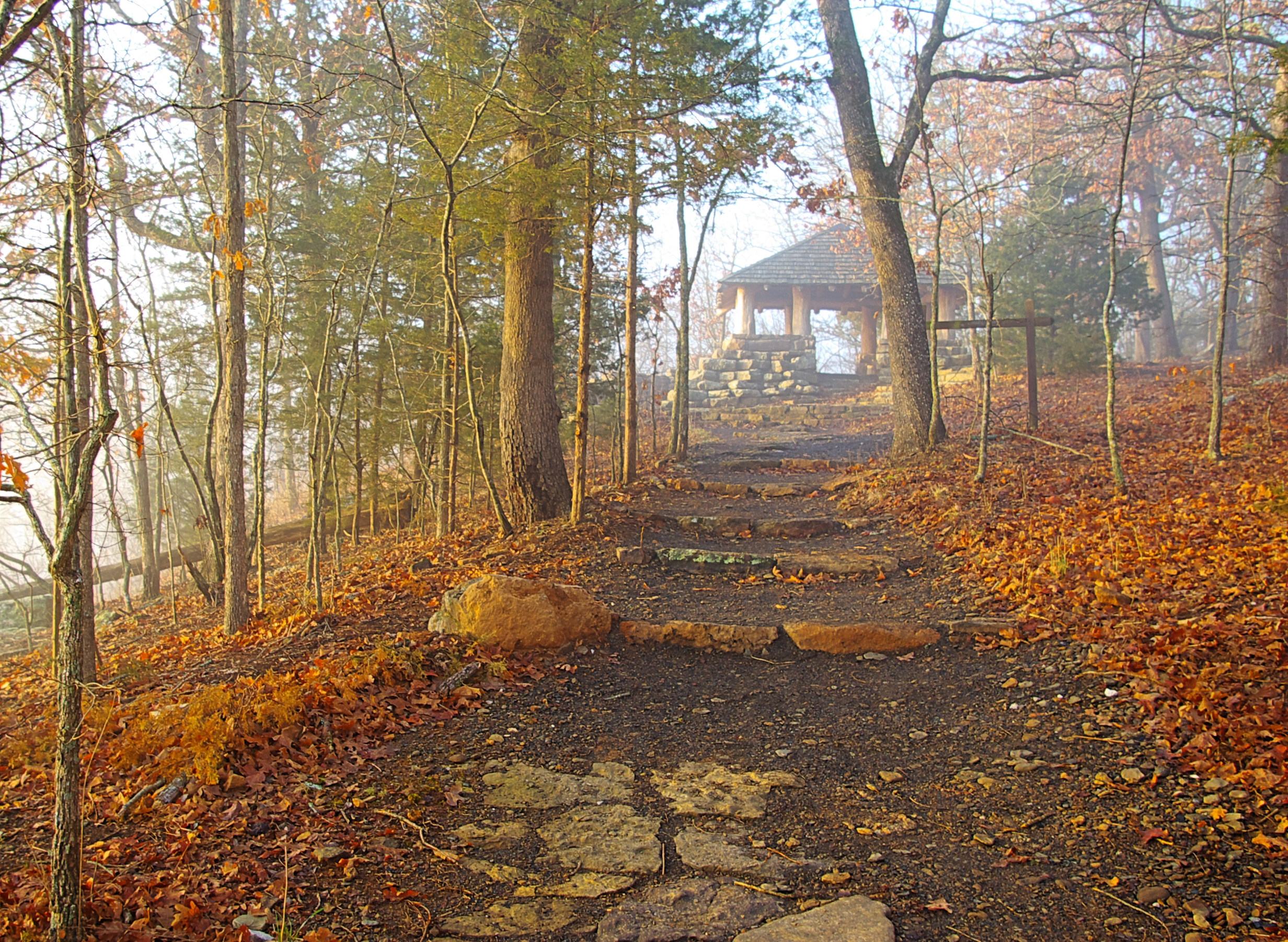 The CCC overlook at the top end of the Yellow Rock Trail in Devil's Den State Park, Arkansas, viewed through light fog moments after sunrise. It's not easy finding good photo ops in a southern woods in late winter ... no snow or ice, the trees leafless, dead brown leaves on the ground, too early yet for all but a few lonely wildflowers. But here the soft sunlight lit up the reds and oranges in the fallen leaves and brightened the greens in the cedar trees. The overlook building was built by the Civilian Conservation Corps in the 1930's, as the nation was recovering from the Great Depression.